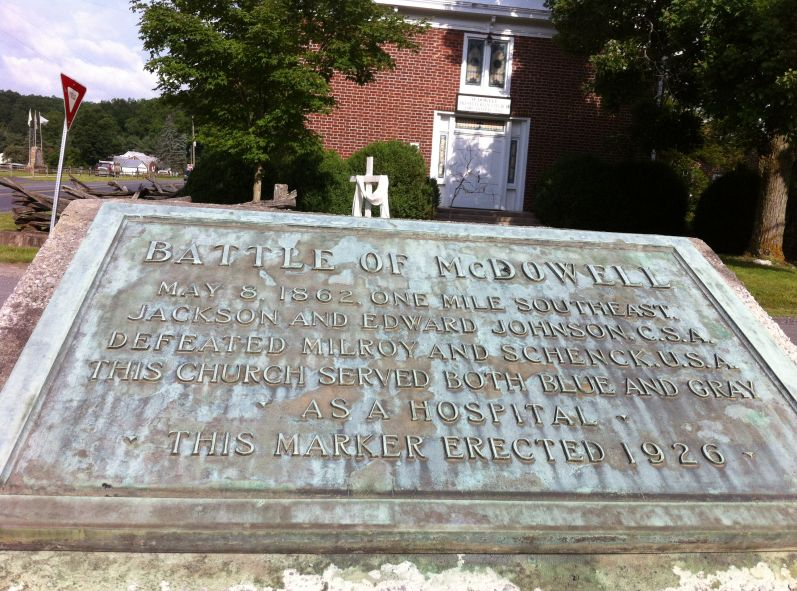 Plaque marking Battle of McDowell, placed in front of the Presbyterian Church, across the street from cemetery